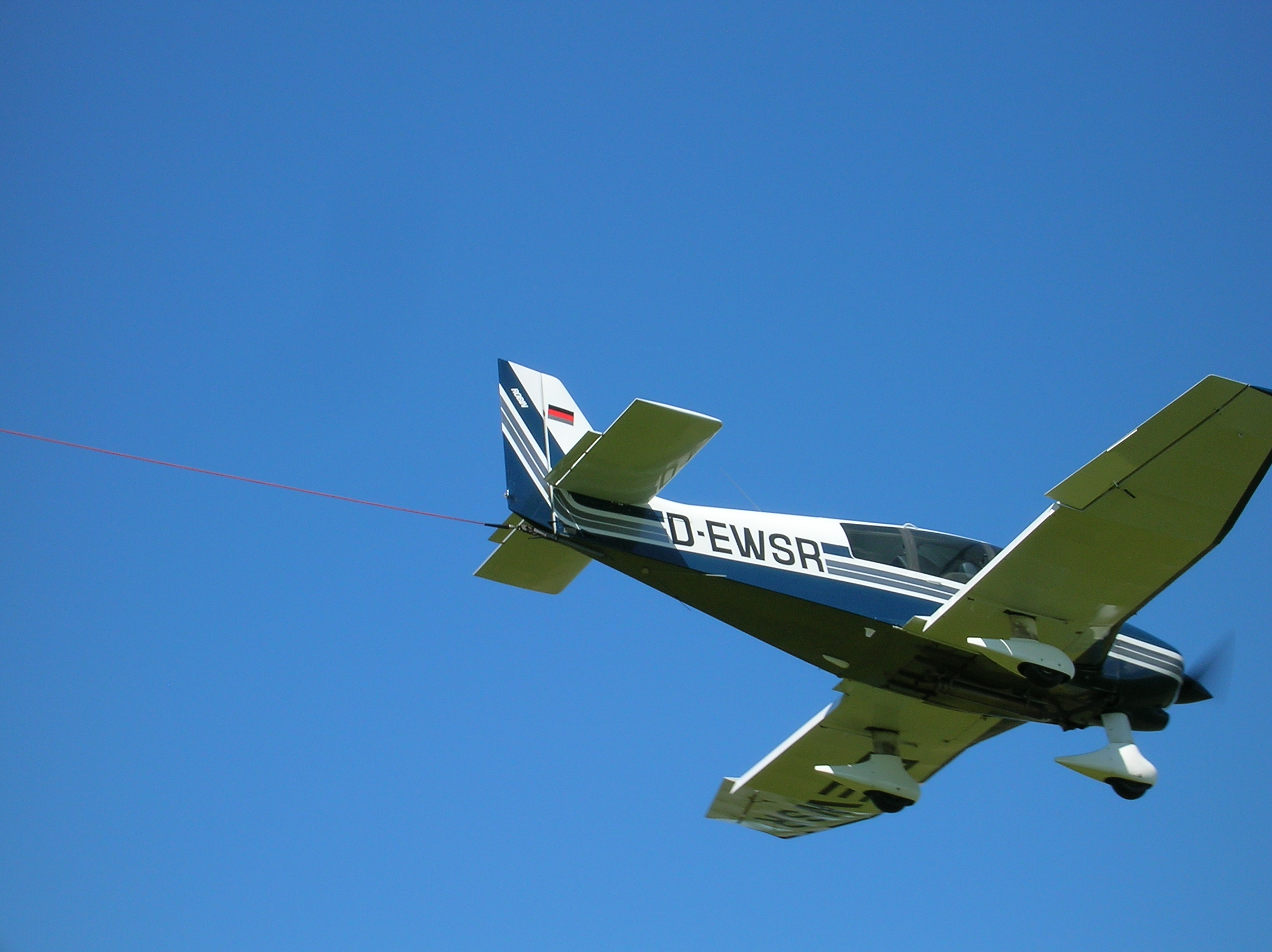 Robin DR 400/180 Regent, seconds before dropping the rope used for aerotowing a glider